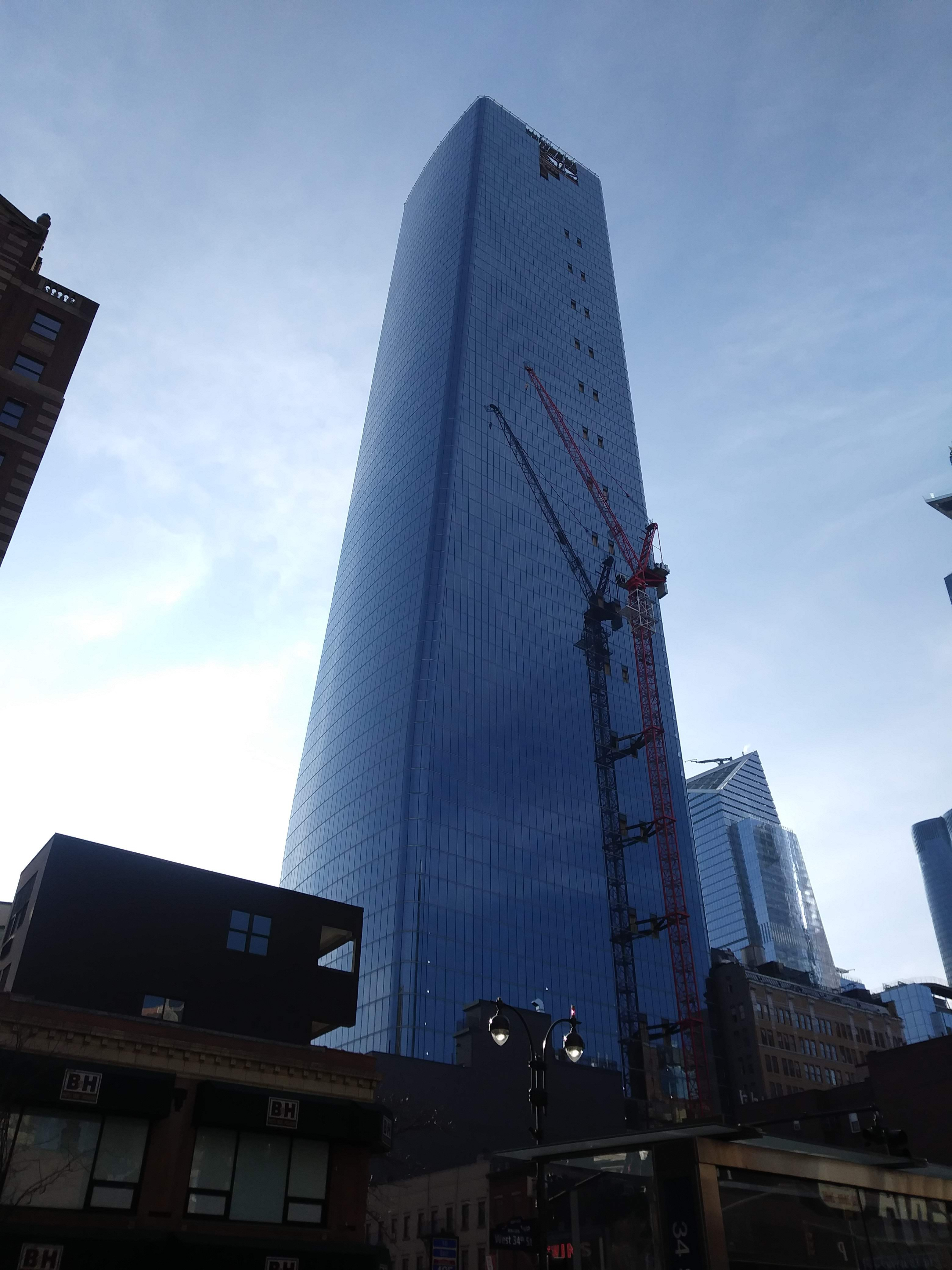 1 Manhattan West as of February 3, 2019.